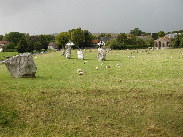 Avebury. Avebury has been built in and around the ancient stone circle.